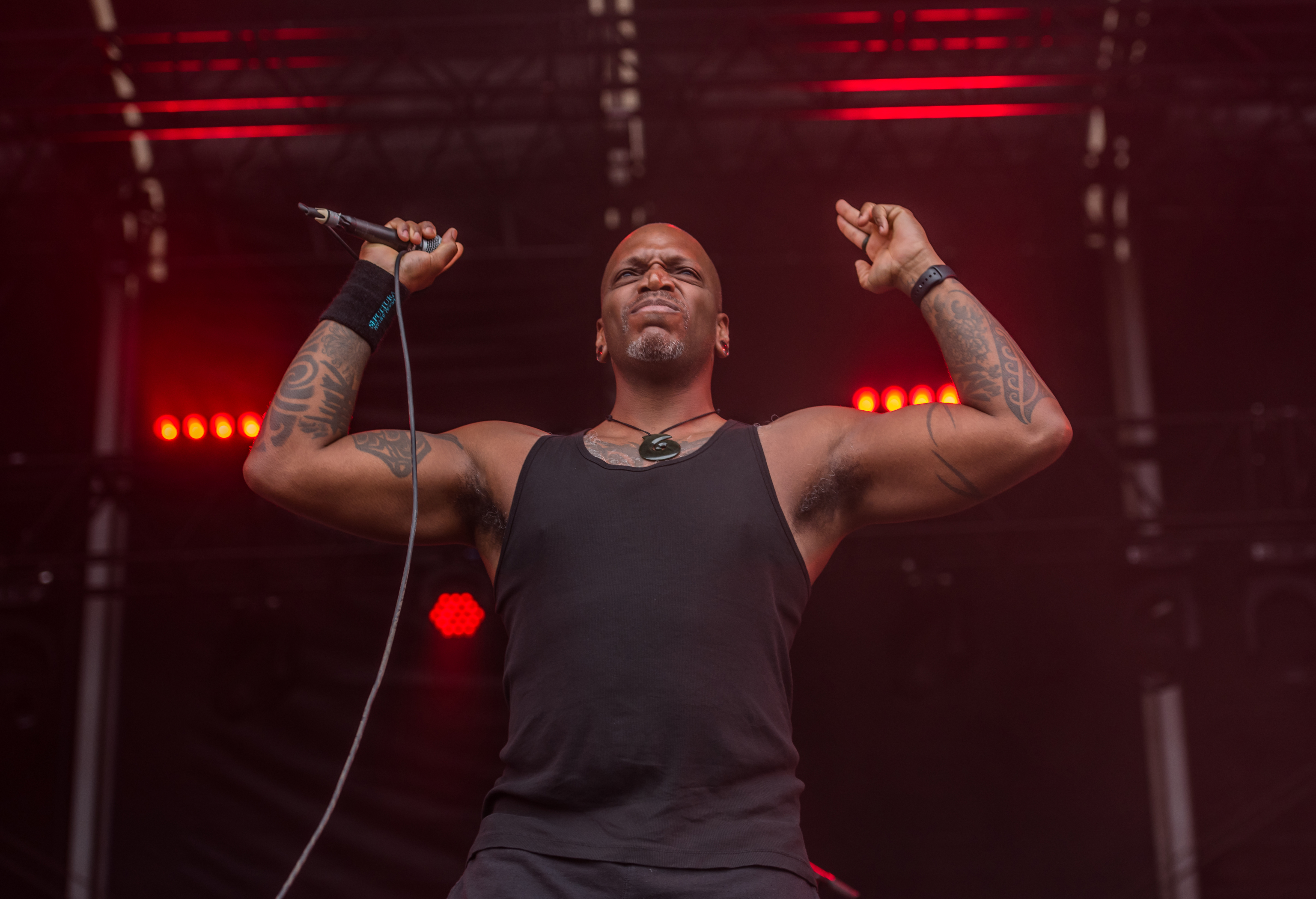 Sepultura playing at Reload Festival 2018